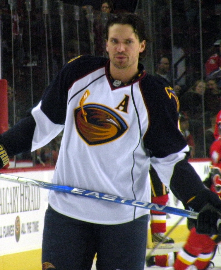 Atlanta Thrashers defenceman Ron Hainsey prior to a National Hockey League game against the Calgary Flames, in Calgary.